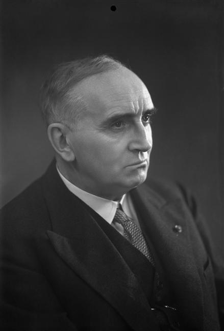 Studio photo